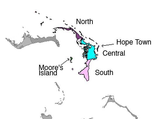 Map of the five districts of the Abacos Islands, Bahamas.